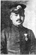 Taichi Uehara is an Imperial Japanese Navy commander